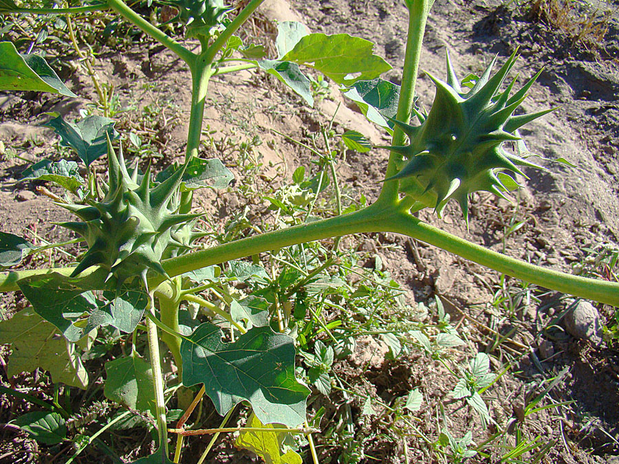 Referred to as the Longspine Thornapple or the Fierce Thornapple due to these armed pods. In context at